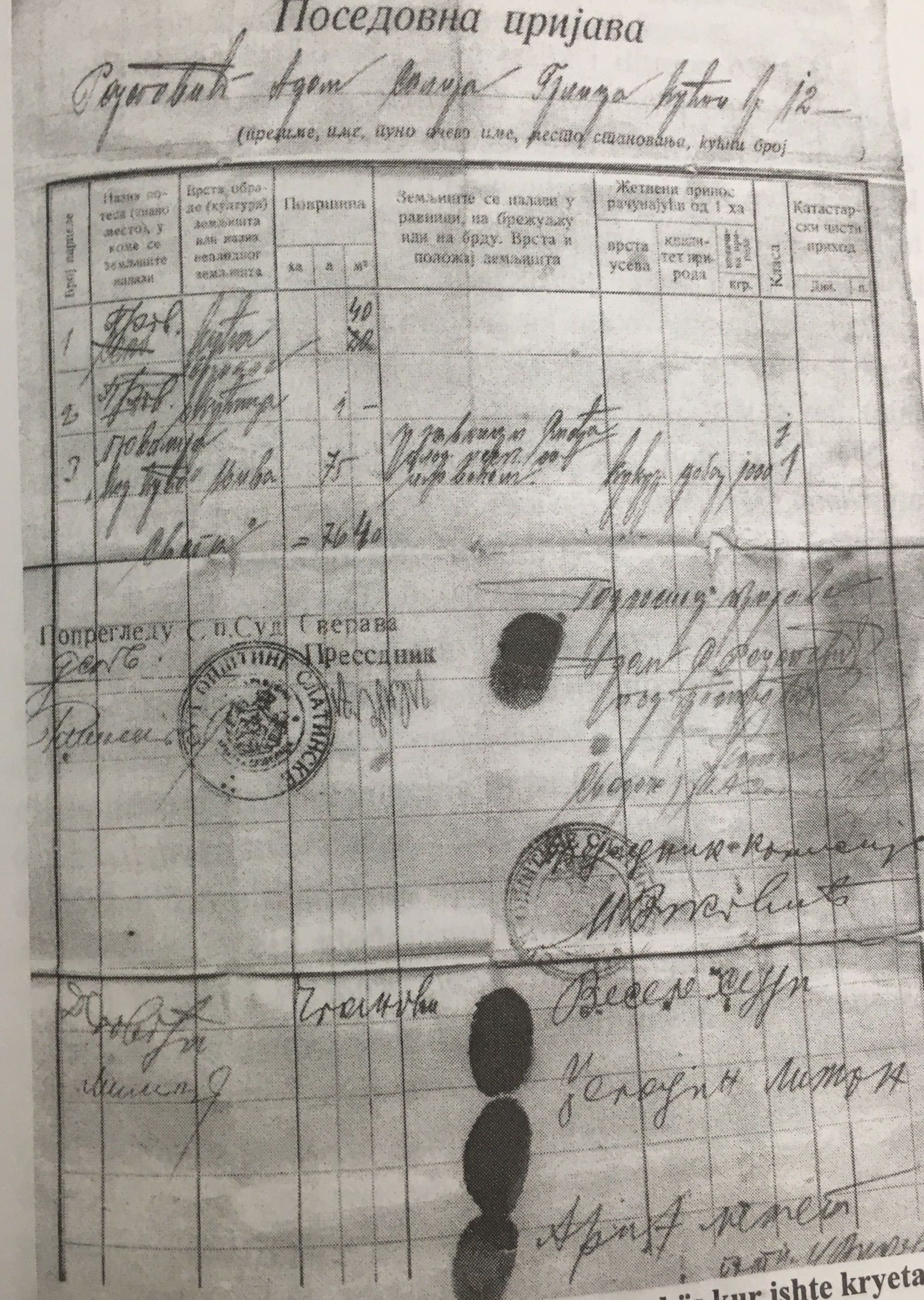 Nënshkimi i Avdyl Durës në tapitë e tokës kur ishte kryetar i komunës së Sllatinës